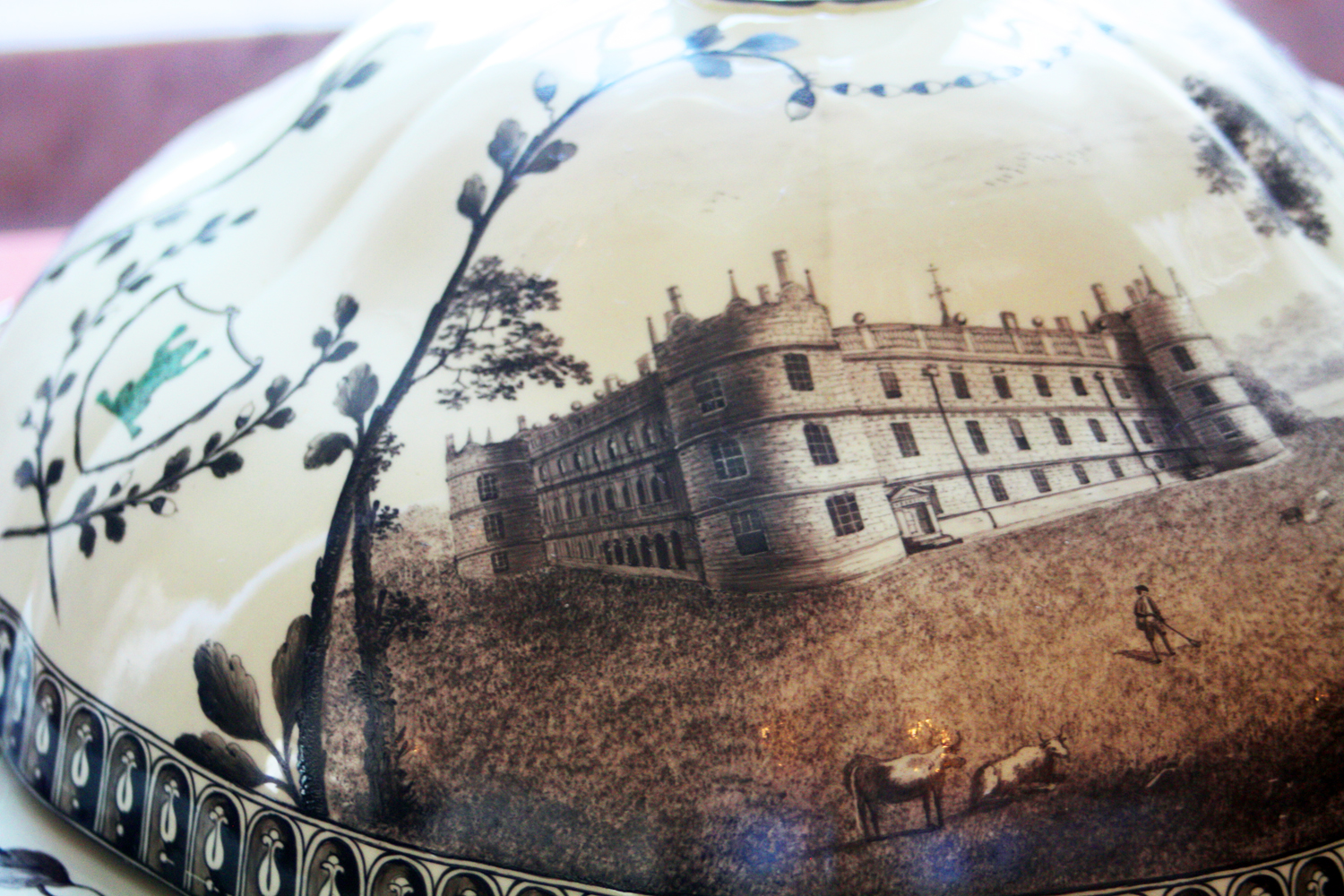 Round covered dish decorated with a view of Longford castle, Wiltshire, from the Green Frog Service by Wedgwood.